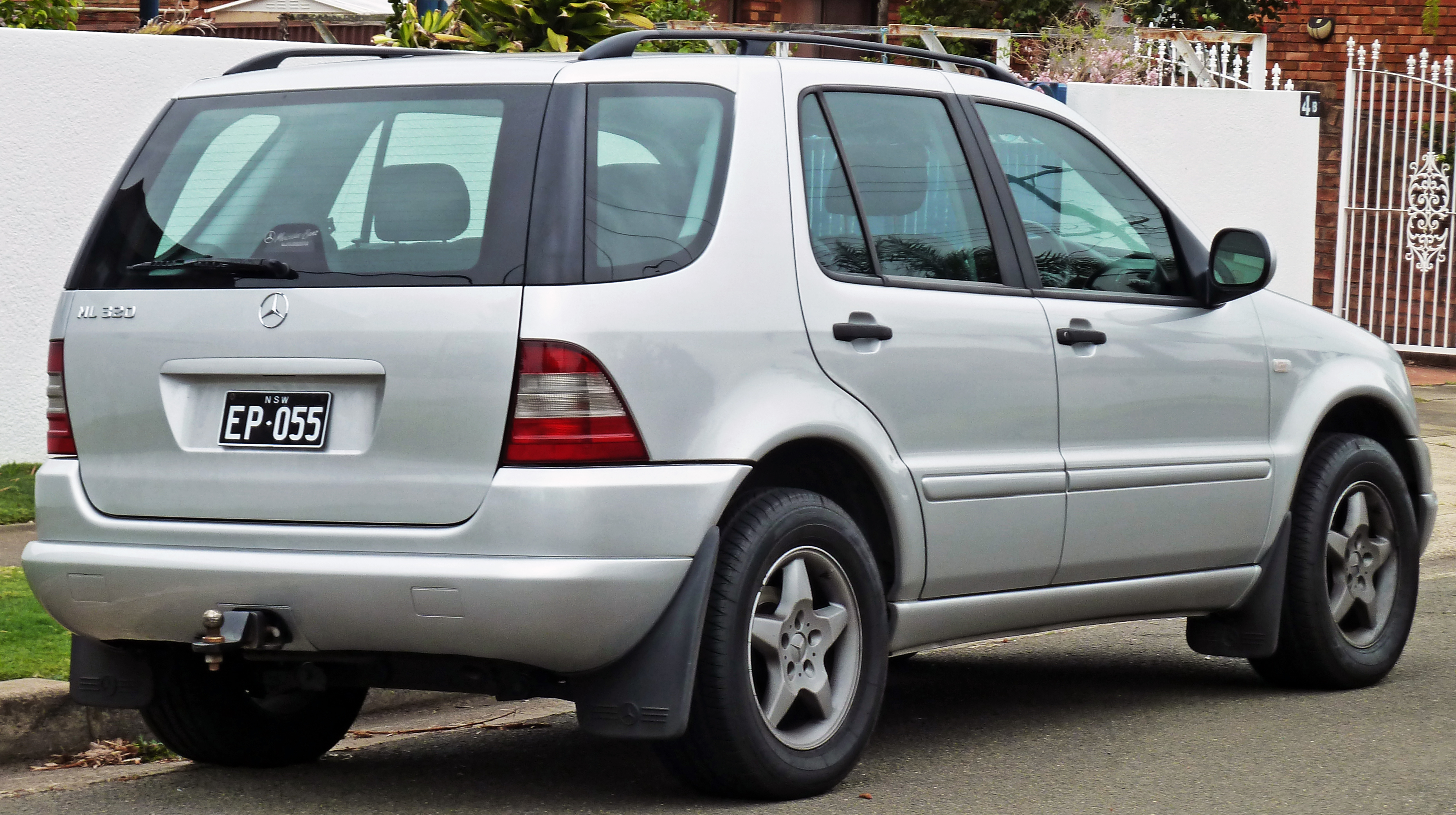 2000 Mercedes-Benz ML 320 (W 163 MY00) wagon. Photographed in Sandringham, New South Wales, Australia.